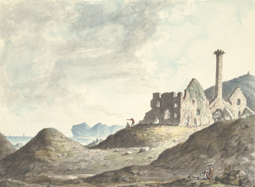 Bryn Euryn, & distant view of Penmon Rhos, 1795